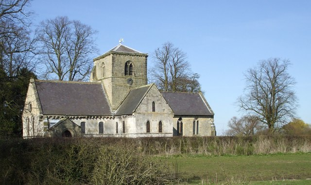 St. Botolph's, Bossall. Norman and late 13C with 19thC alterations. A big church in a shrunken village, but in a huge parish pre 1832. Stretching from the river Derwent to Sheriff Hutton & Strensall.